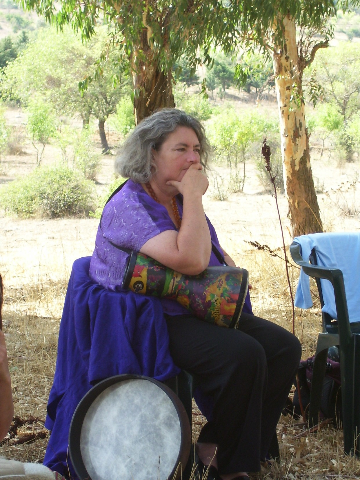 Starhawk, pagan and eco-activist (sicilian workshop)